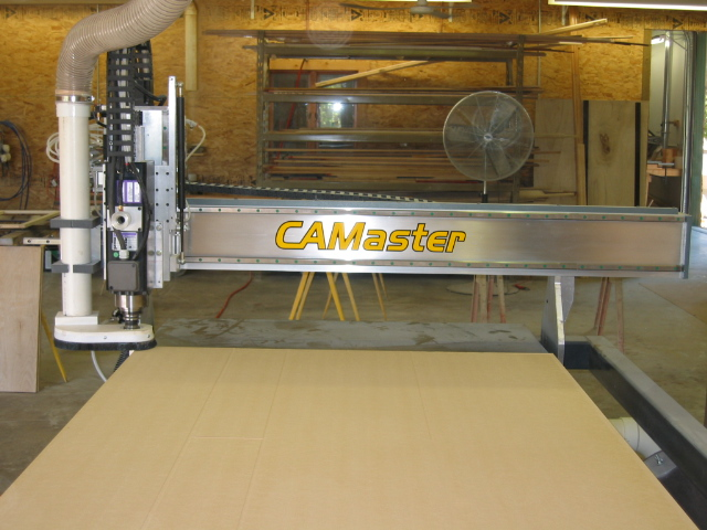 Photo of a CAMaster CNC Router in a cabinet shop. CAMaster CNC routers are used for cutting cabinets out of a variety of materials.